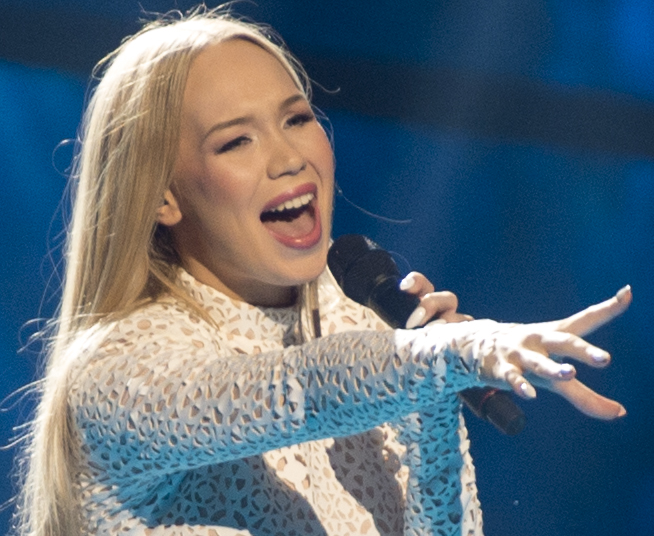 Agnete representing Norway with the song "Icebreaker" during a rehearsal before the second semi final of the Eurovision Song Contest 2016 in Stockholm. (Help translate this text)